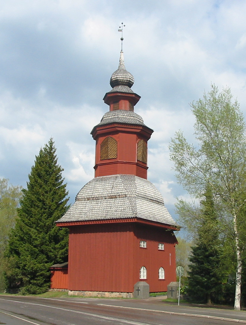 The bell tower of Koski parish, Finland proper